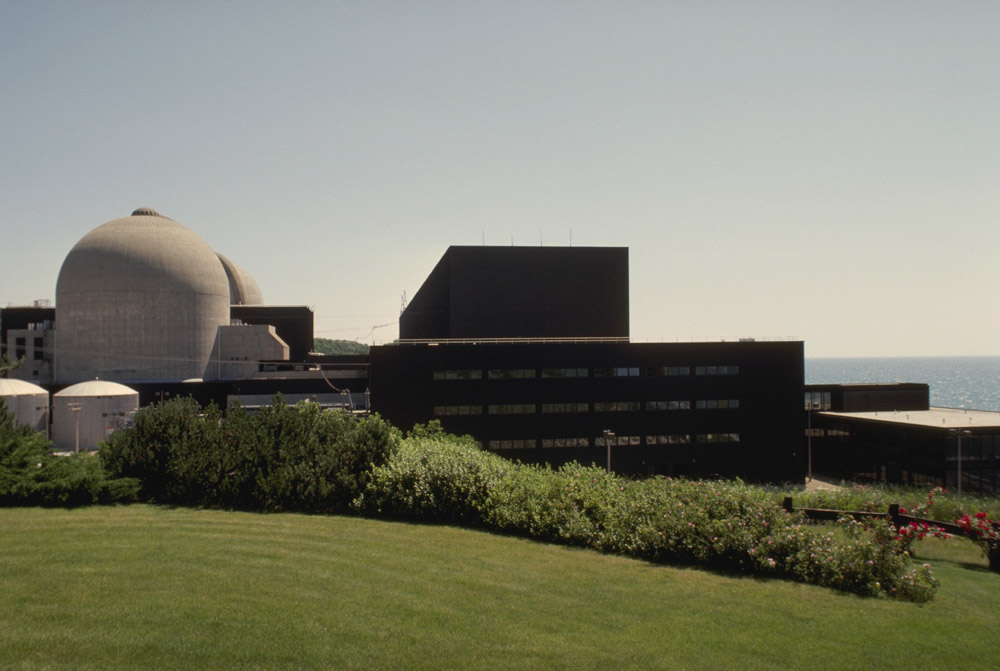 Exterior of the Donald C. Cook Nuclear Generating Station, located in Bridgman, Michigan, USA. Image is looking towards Unit 1. The concrete domes are the containment buildings (which hold the reactor). The tall brown building (behind the brown office building) contains the steam turbines and electrical generators. Lake Michigan can be seen in the background. Author: Tom Remick